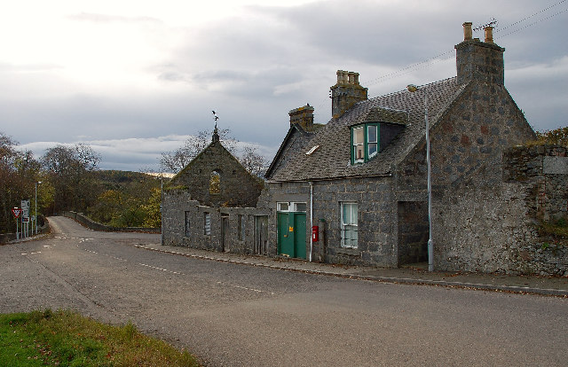 Bridge of Alford. Ruined church? and cottage with post box.